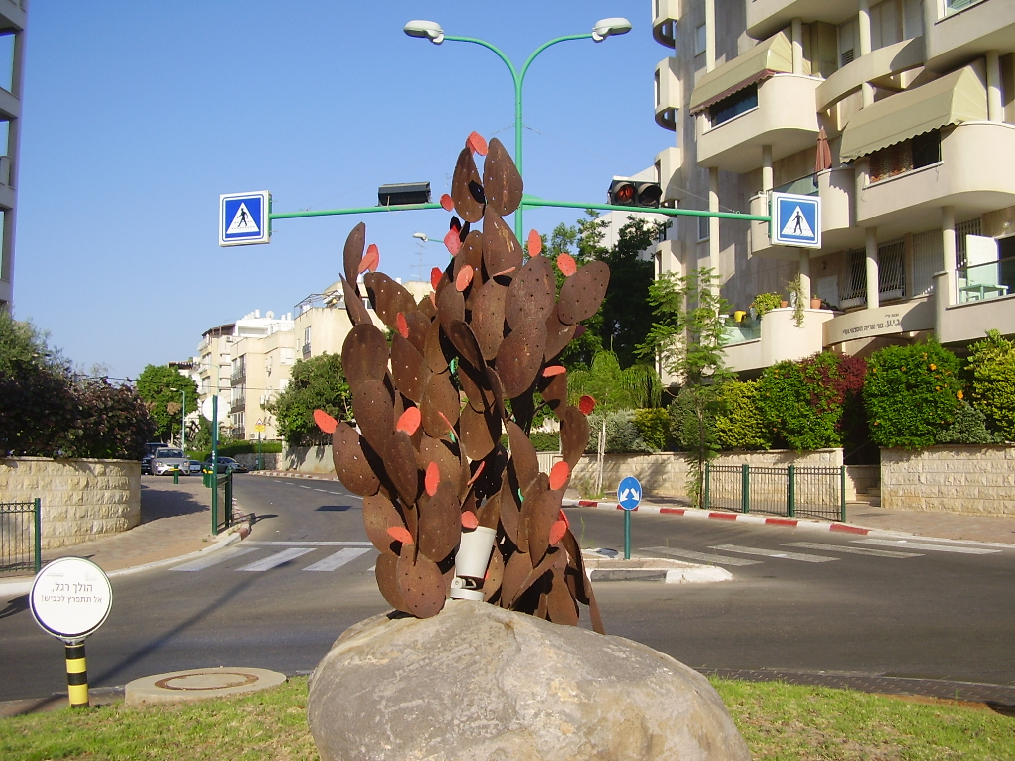 Cactus (sabra) sculpture in Petah Tikva